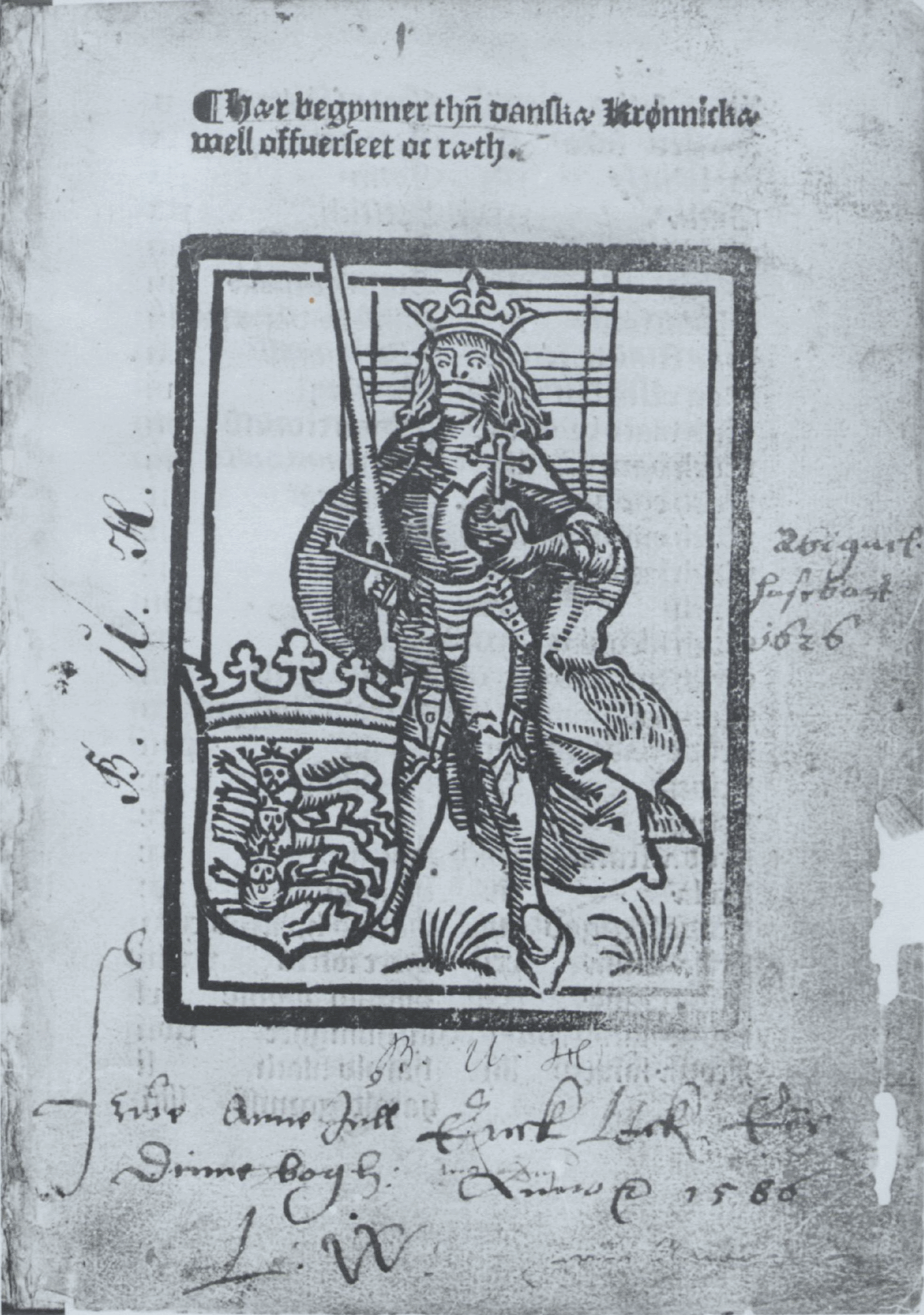 The first book printed in the Danish language. It is a Chronicle of the Kings of Denmark, written in verse. Each king - until Christian I - tells of his life and deeds. This is the title page of copy no. 2 from the Royal Library of Denmark, fitted with a new binding at a later time. The title page features a woodcut of king Christian I and has been inscribed with a number of comments.